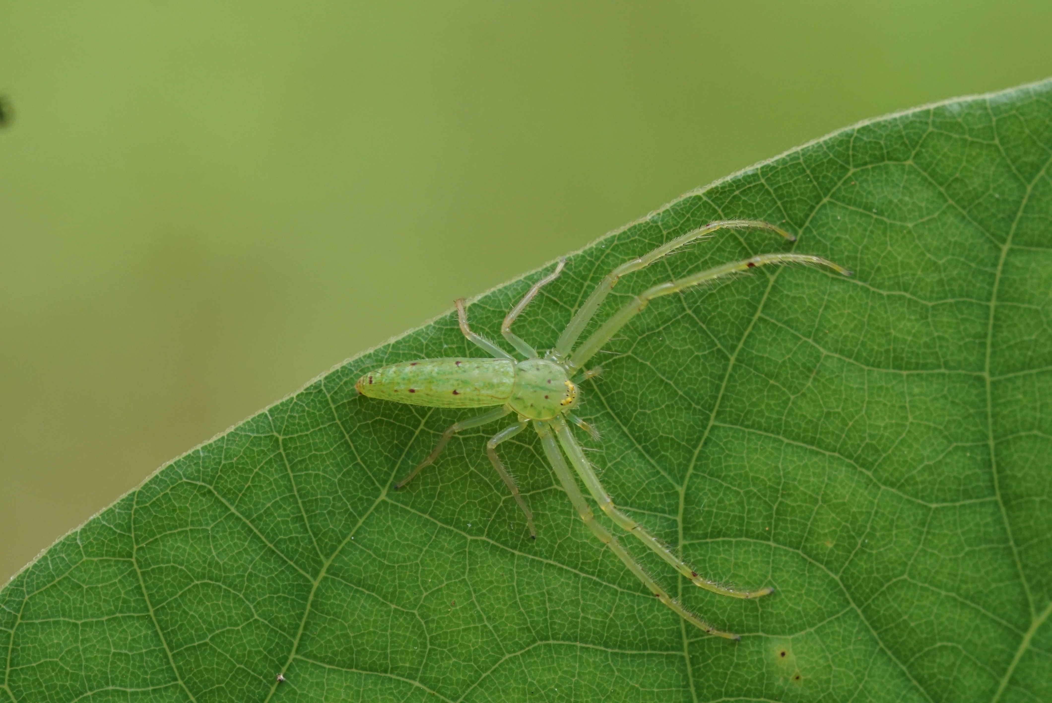 Oxytate virens